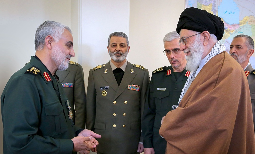 Qasem Soleimani received Zolfaghar Order from Ali Khamenei